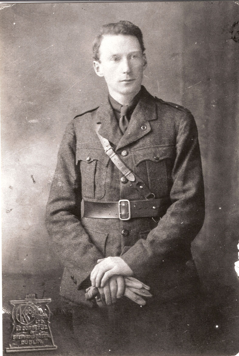 Tom Maguire, courtesy of the Maguire Family.